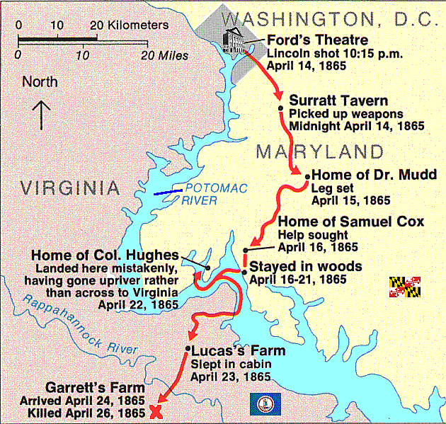 Source: National Park Service – "John Wilkes Booth's Escape Route". Derivative work for Wikipedia by User:JGHowes – added state flags/icons; revised map colors.